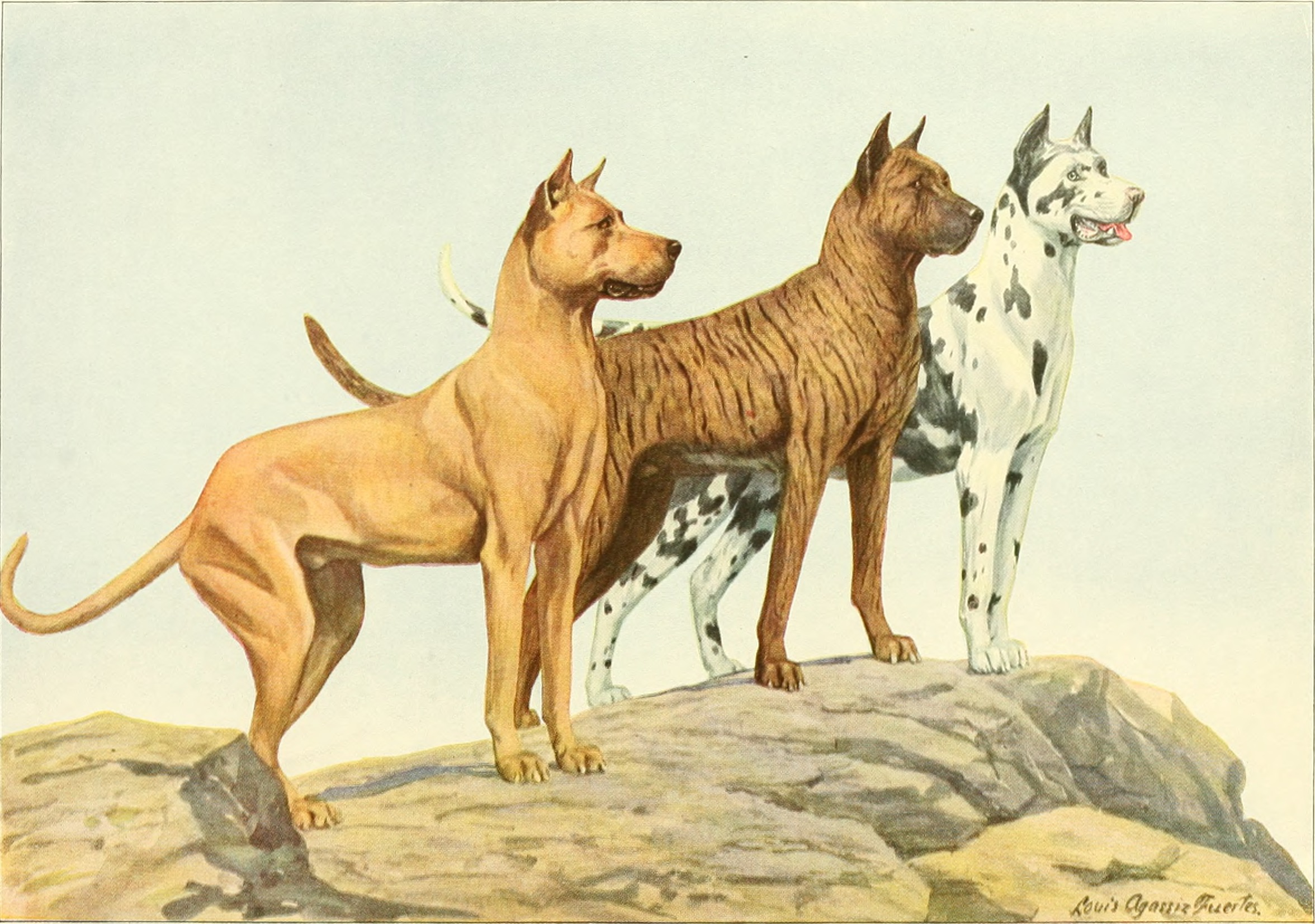 “GREAT DANES” Title: The book of dogs; an intimate study of mankind's best friend Year: 1919 (1910s) Authors: National Geographic Society (U. S. ); Fuertes, Louis Agassiz, 1874-1927; Baynes, Ernest Harold, 1868-1925 Subjects: Dogs Publisher: Washington, D. C. , The National geographic society Text Appearing Before Image: ' Text Appearing After Image: 38